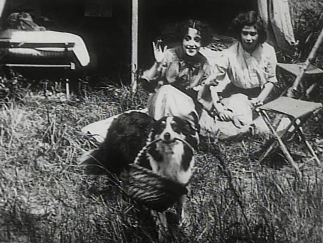 Still frame from the Vitagraph Studios film Jean the Match-Maker (1910) Subjects are Jean, the Vitagraph Dog, Florence Turner and Mary Fuller